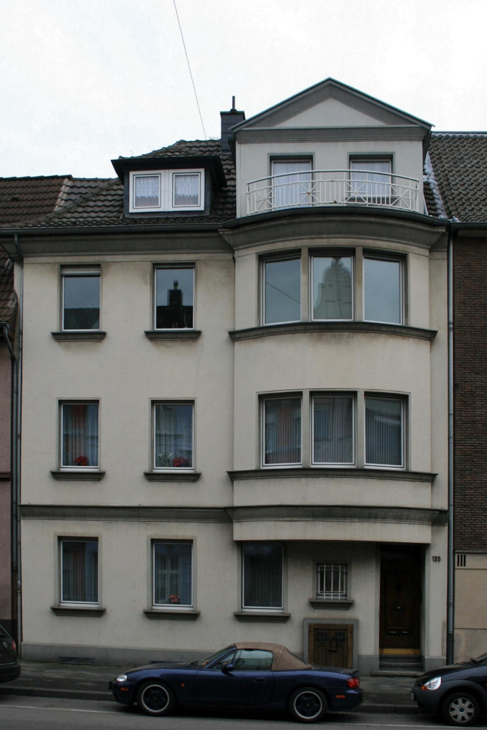 Cultural heritage monument No. V 022 in Mönchengladbach